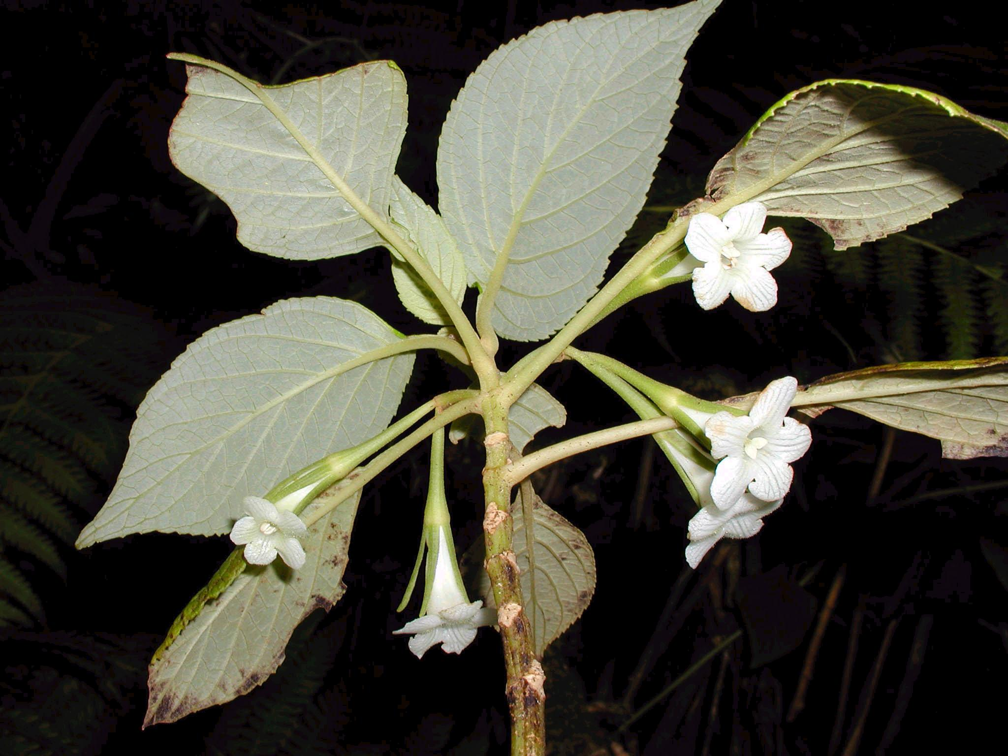 Cyrtandra gracilis